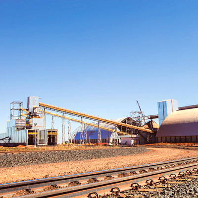 vli terminal uberaba